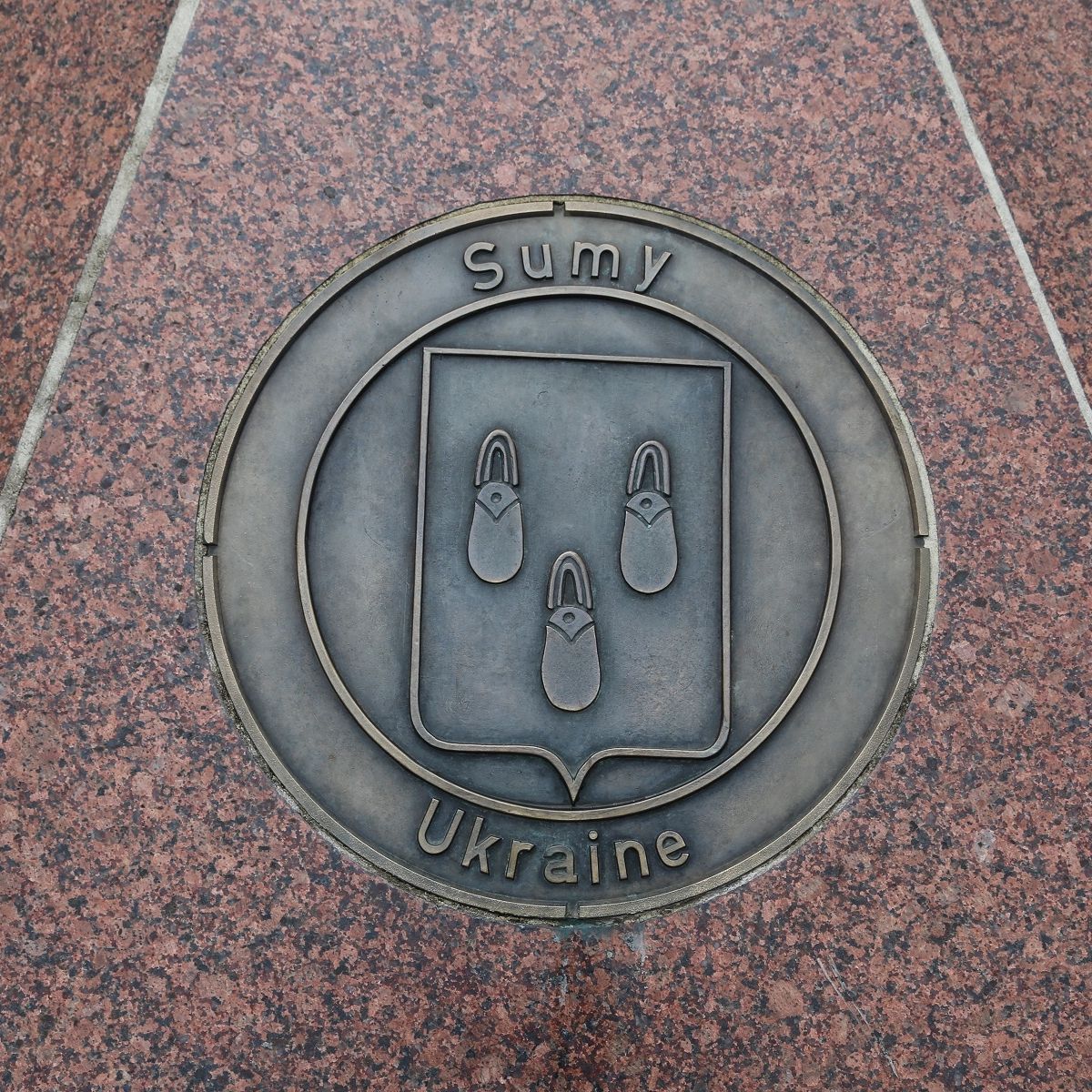 Sumy is one of the twinned towns / sister cities of Celle in the North of Germany. Placed at a work of art with the further seals of her twinned towns. Inserted in polished granite of a multilateral similar to pyramid polygon (see survey photography)